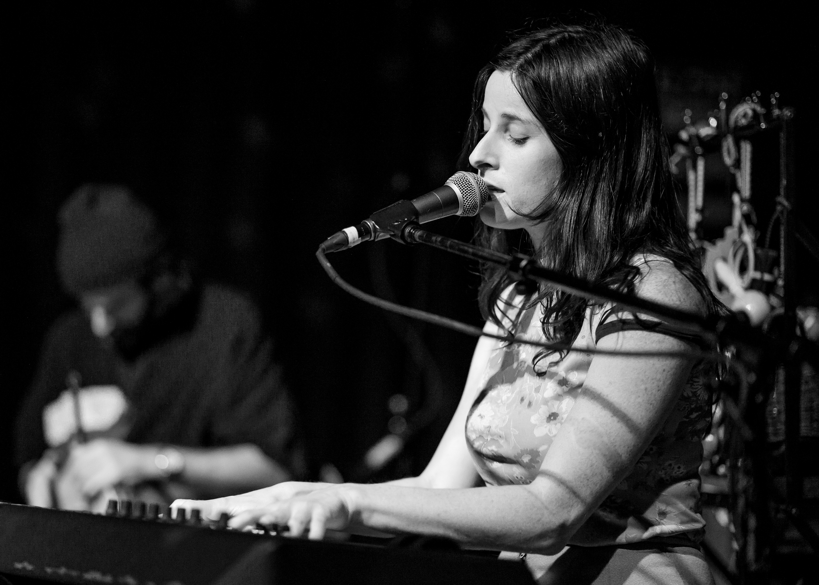 Buzzy Lee (Sasha Spielberg) performing live at Zebulon Cafe in Los Angeles, California, on Monday, April 9, 2018.